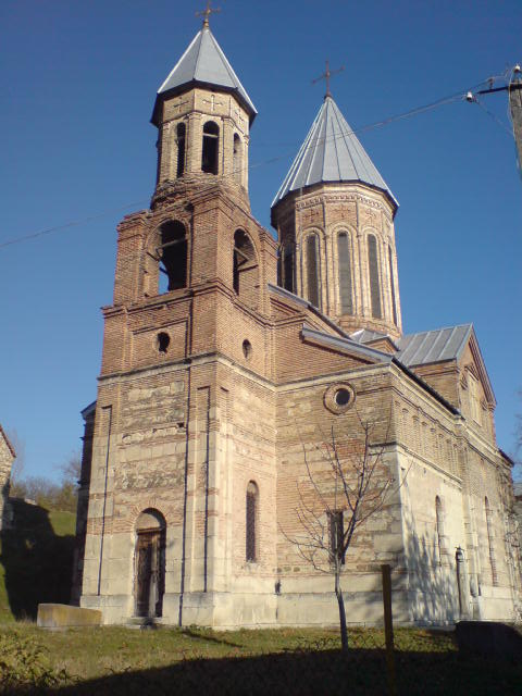 St. george church of surami